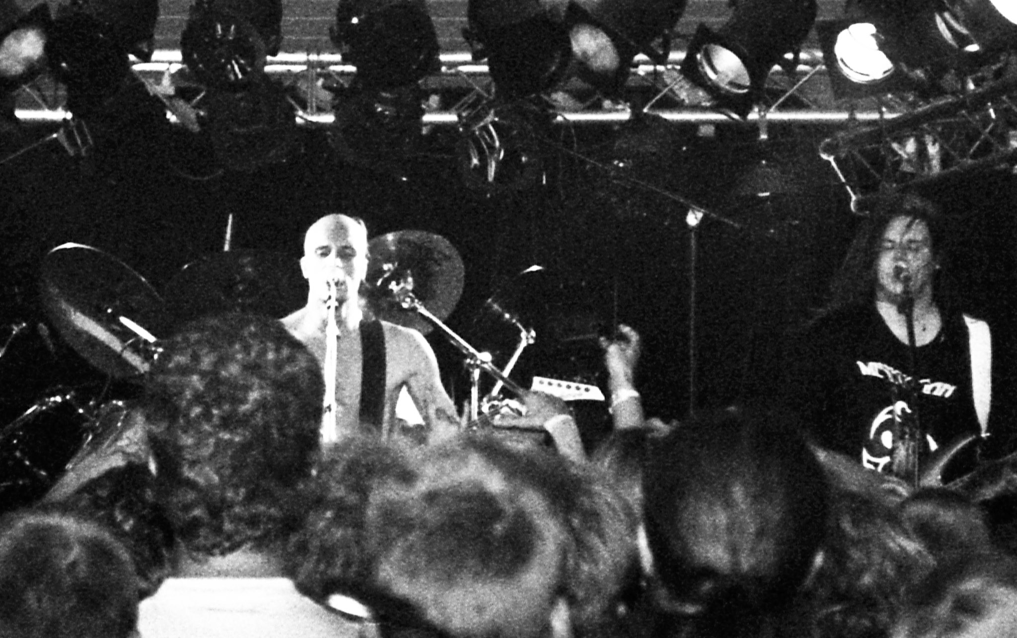 Meshuggah performing live in 1992.